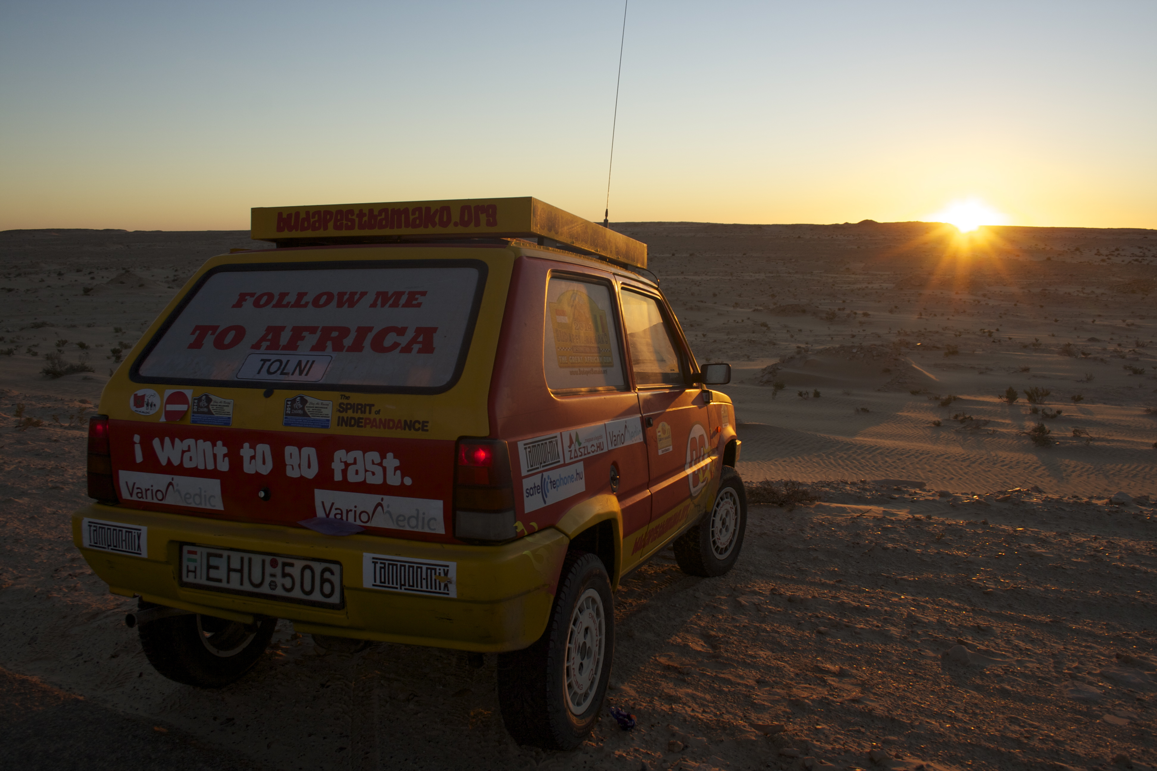 Fiat Panda on the 2014 Budapest-Bamako in Mauritania